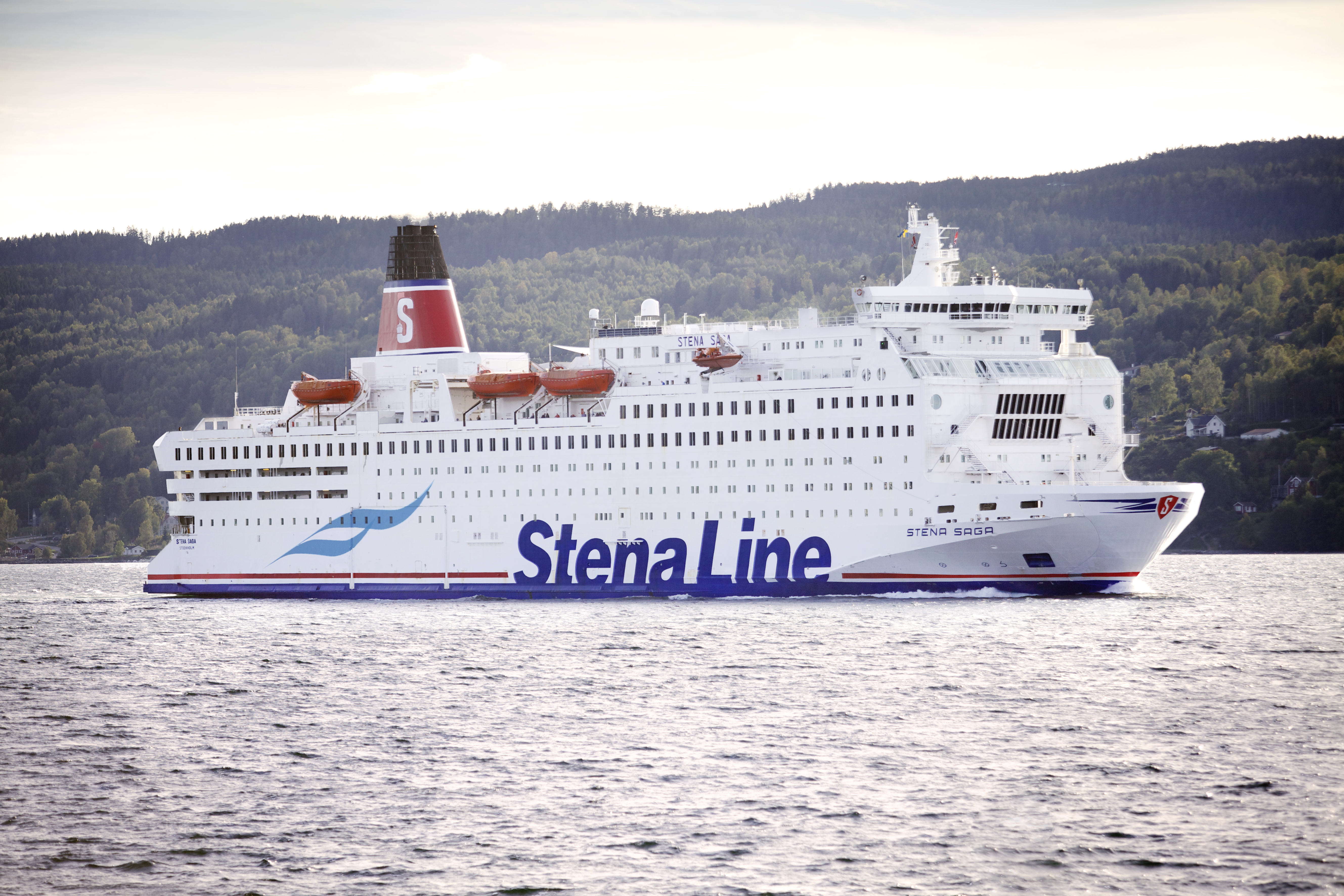 MS Stena Saga of Stena Line in the Oslo Fjord on the Oslo - Fredrikshavn route.